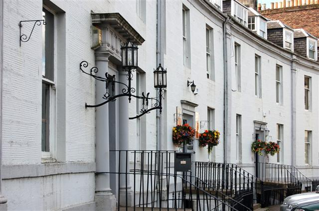 Atholl Place This row of houses is now occupied by a variety of businesses. The building nearest the camera is the home of a masonic lodge.